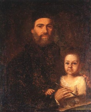 Self portrait by Nikolaos Kantounis